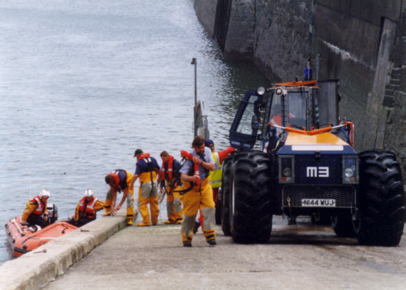 The annual sea festival at Porthcawl, Wales.